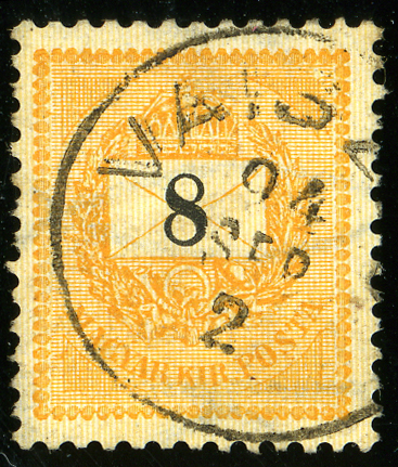 Kingdom of Hungary 8 kr stamp, issue 1888, cancelled Vajszló in 1894.